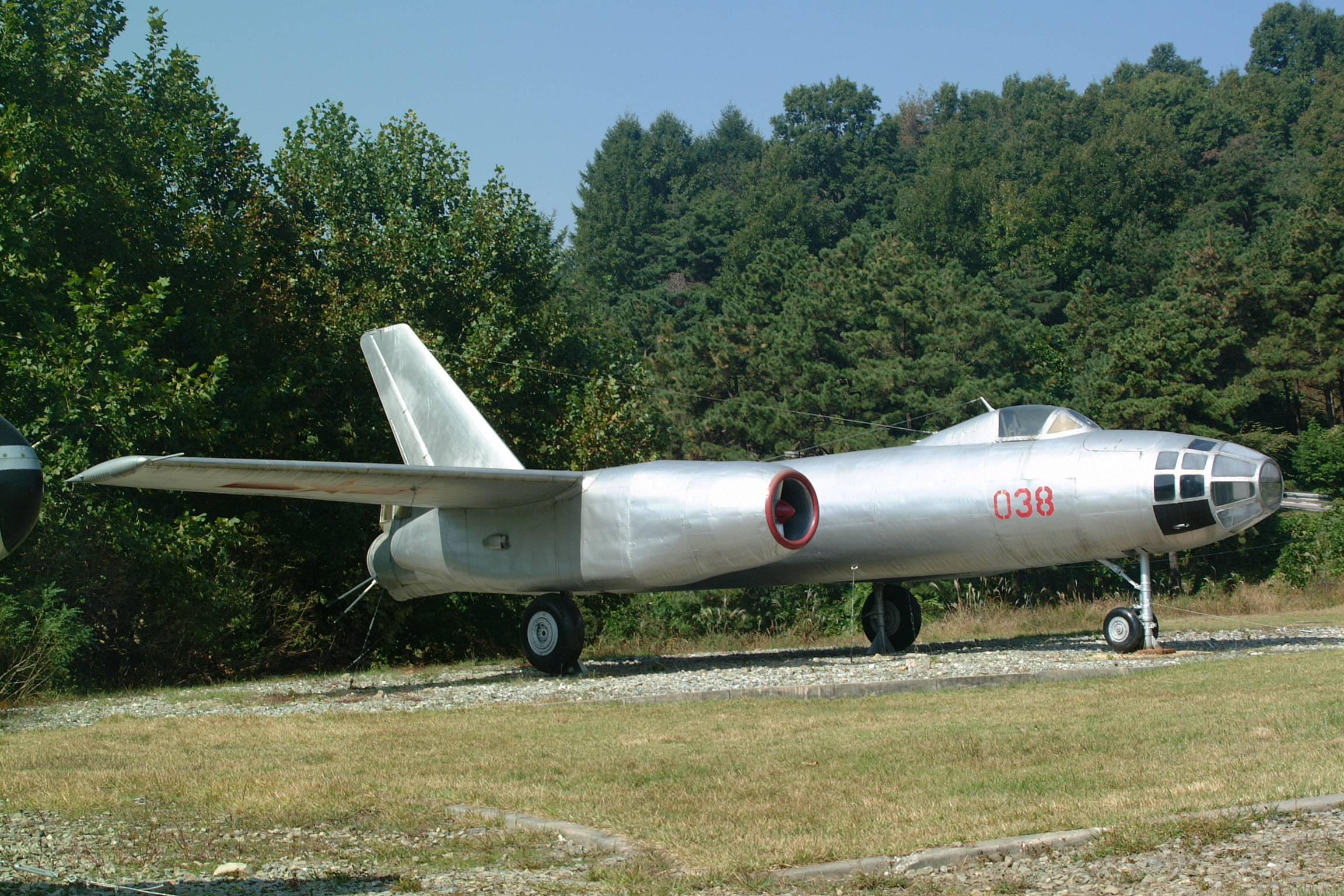 This is a Russian Ilyushin Il-28 'Beagle' bomber licence built in China as the Harbin (where the factory is) H-5. This one is wearing the Chinese markings which it wore when it defected from China on the 24th of August 1985.